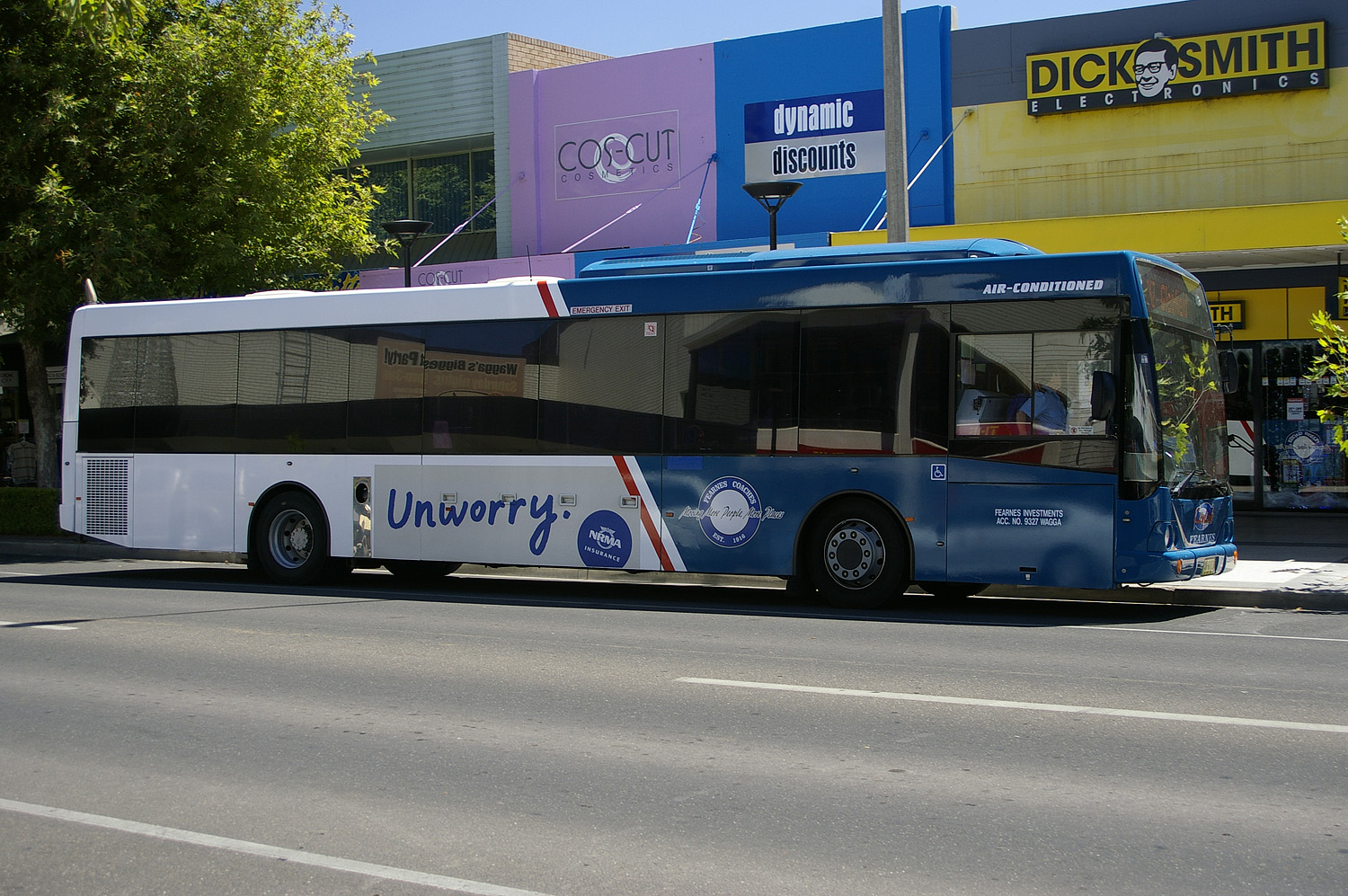 Fearnes Coaches - Irisbus Agoraline chassis with ABM CB60 body in Australia.